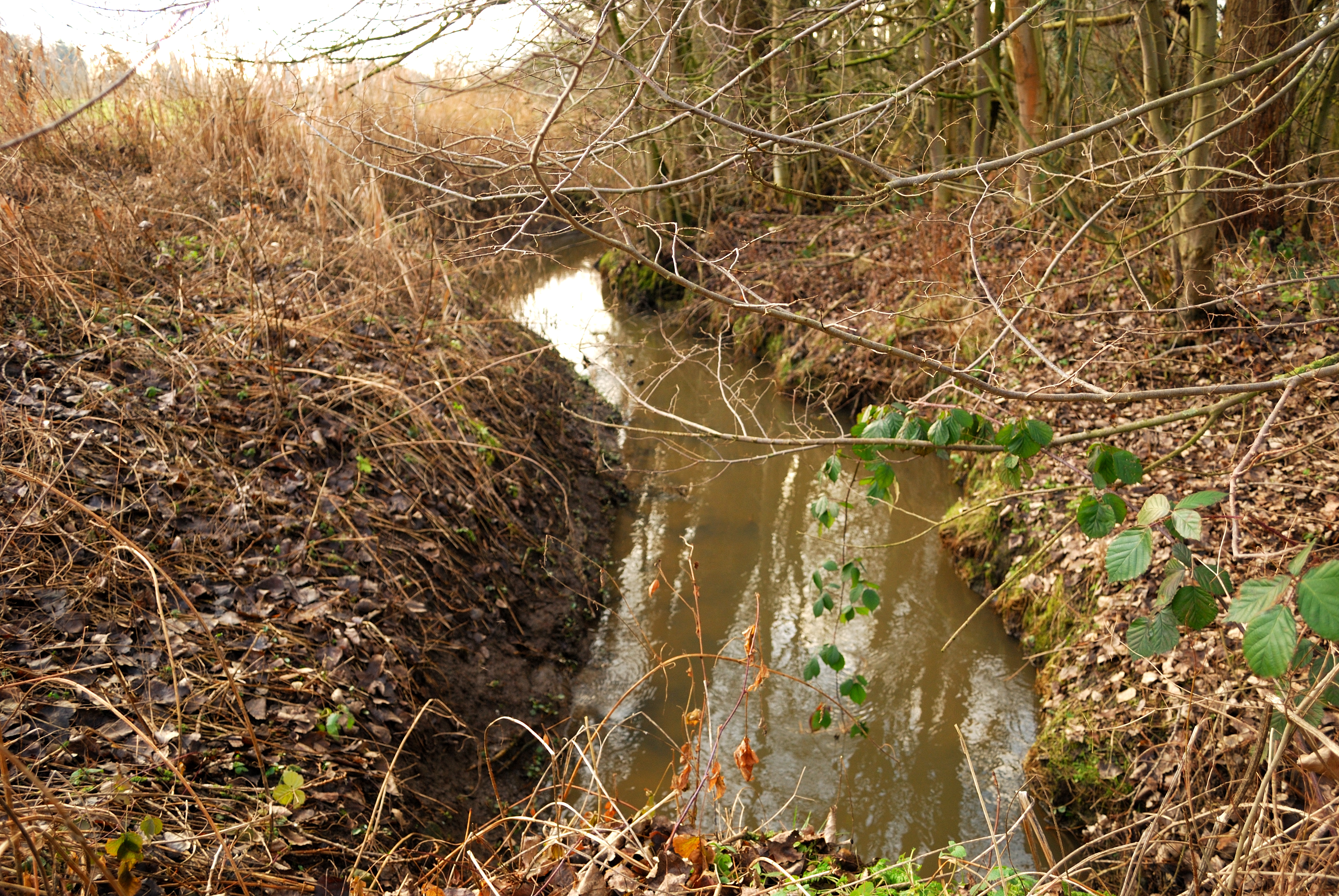 Molenbeek-Zuid creek between the villages of Sint-Martens-Bodegem and Sint-Ulriks-Kapelle, commune of Dilbeek, Belgium. The water level is moderately high due to thaw. Nikon D60 f=18mm f/4.5 at 1/80s ISO 200. Processed using Nikon ViewNX 1.3.0.